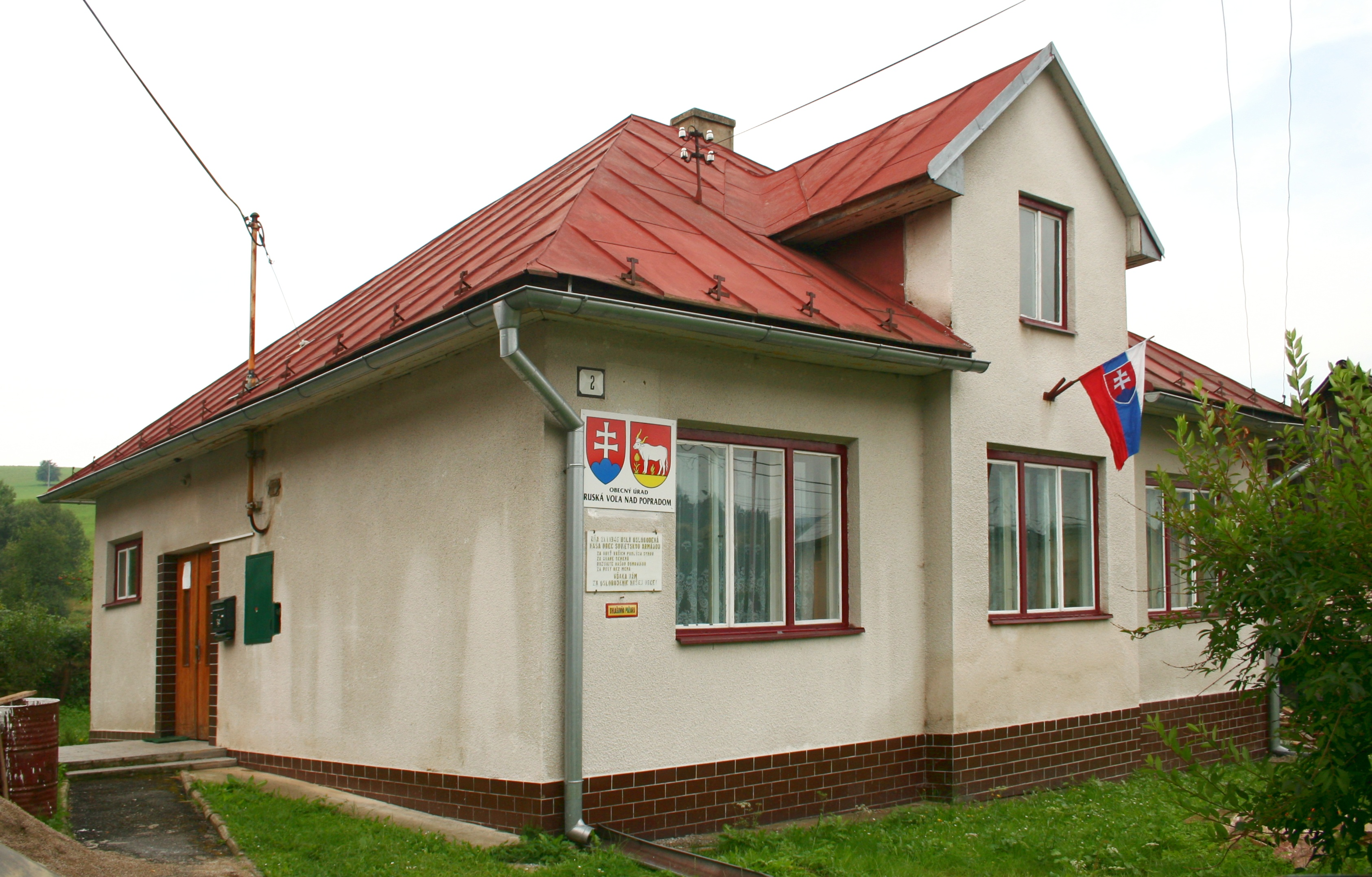 Ruská Voľa nad Popradom, village in Slovakia